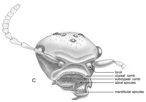 Drawings of holotype of Zigrasimecia tonsora, as preserved. (C) Head, frontal view.